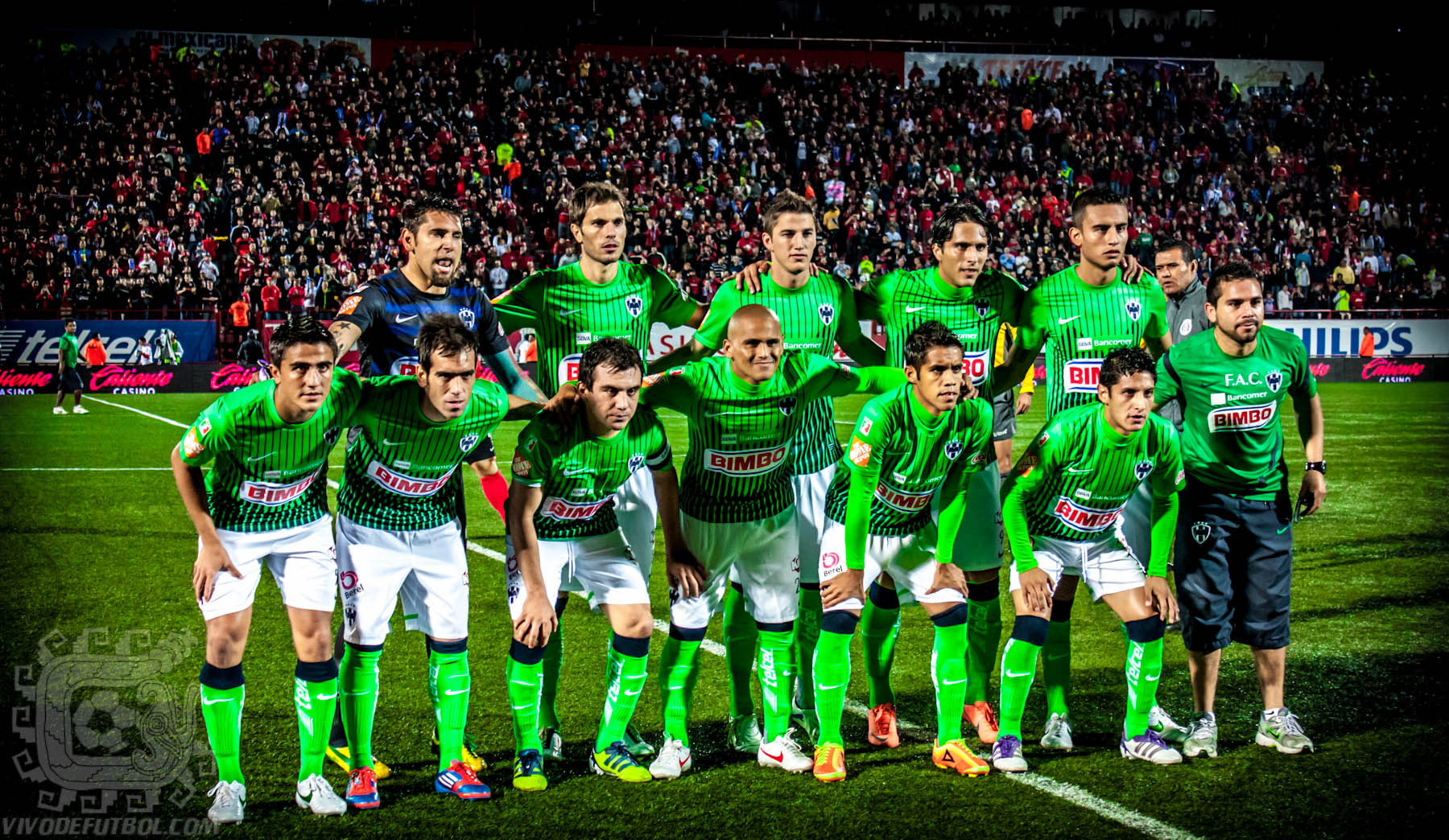 Monterrey soccer team in Tijuana, Mexico before facing Club Tijuana